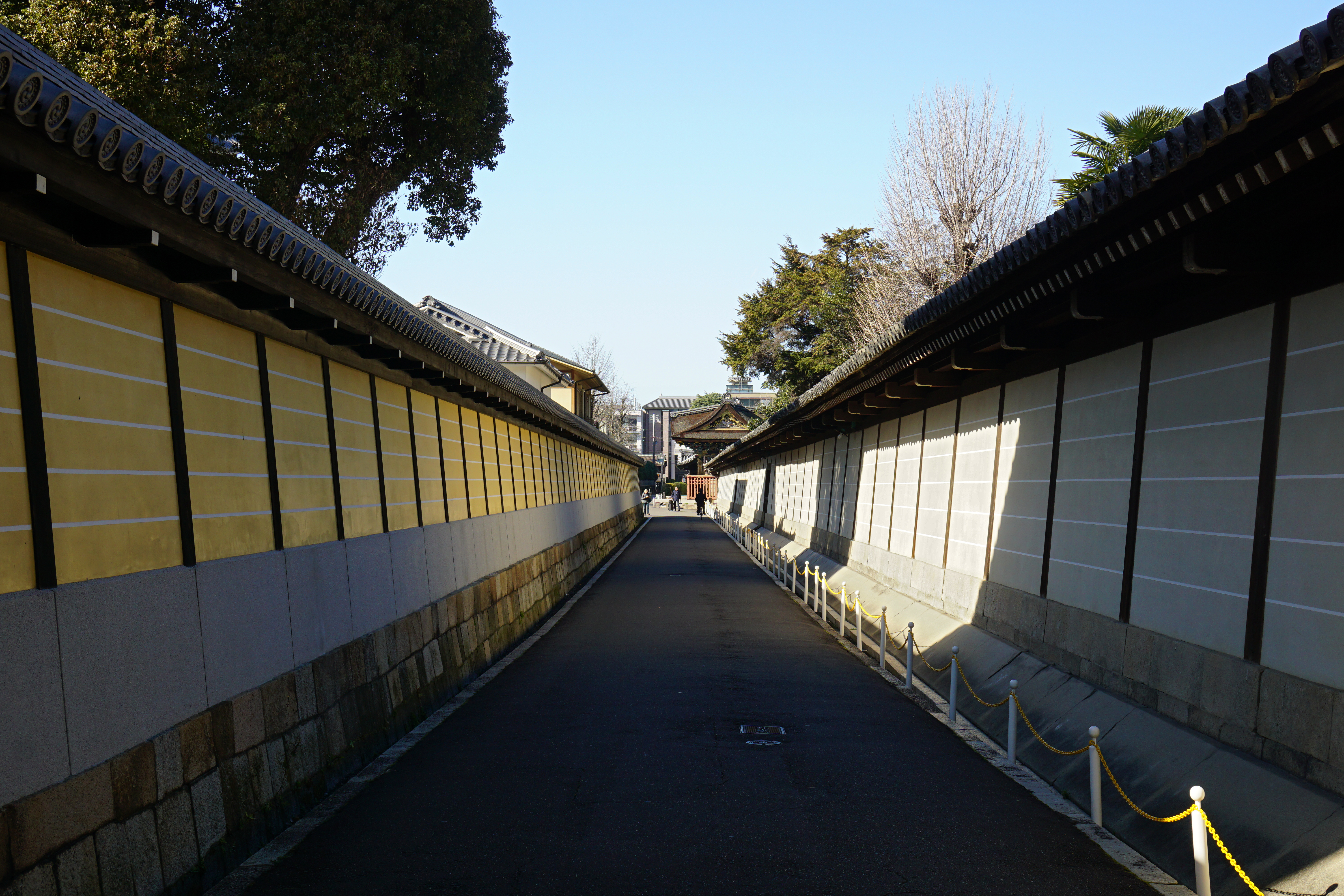 Nishi Honganji in Kyoto, Kyoto prefecture, Japan